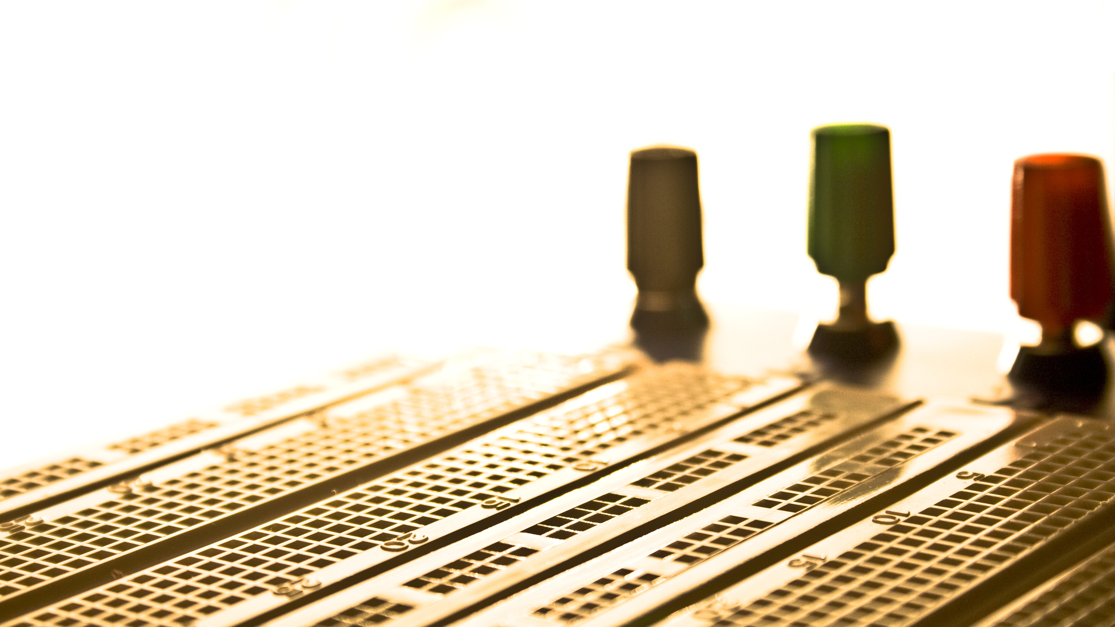 breadboard, projectboard